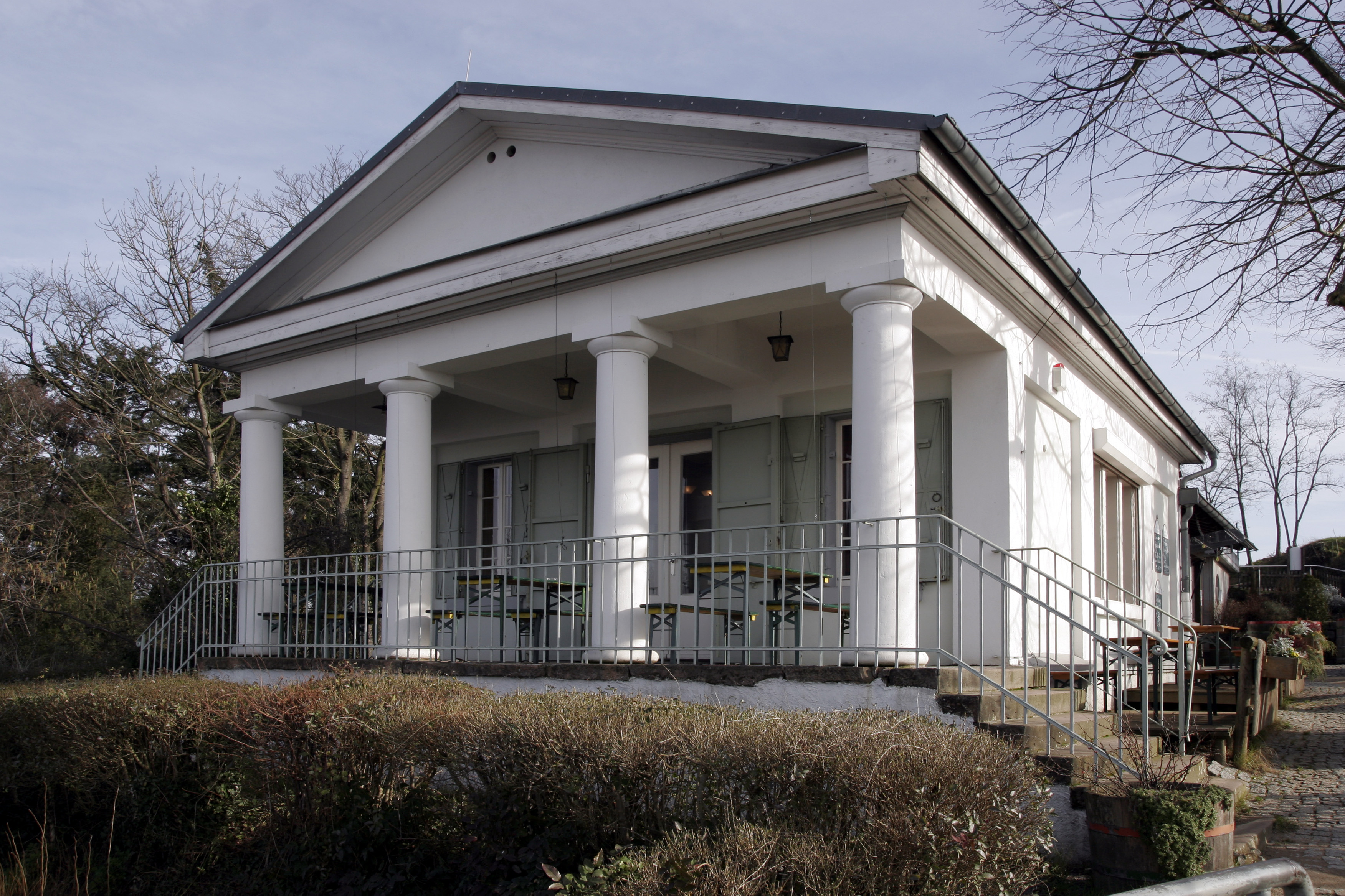 Kirchberghaeuschen, one of Bensheim's (Germany) sights.